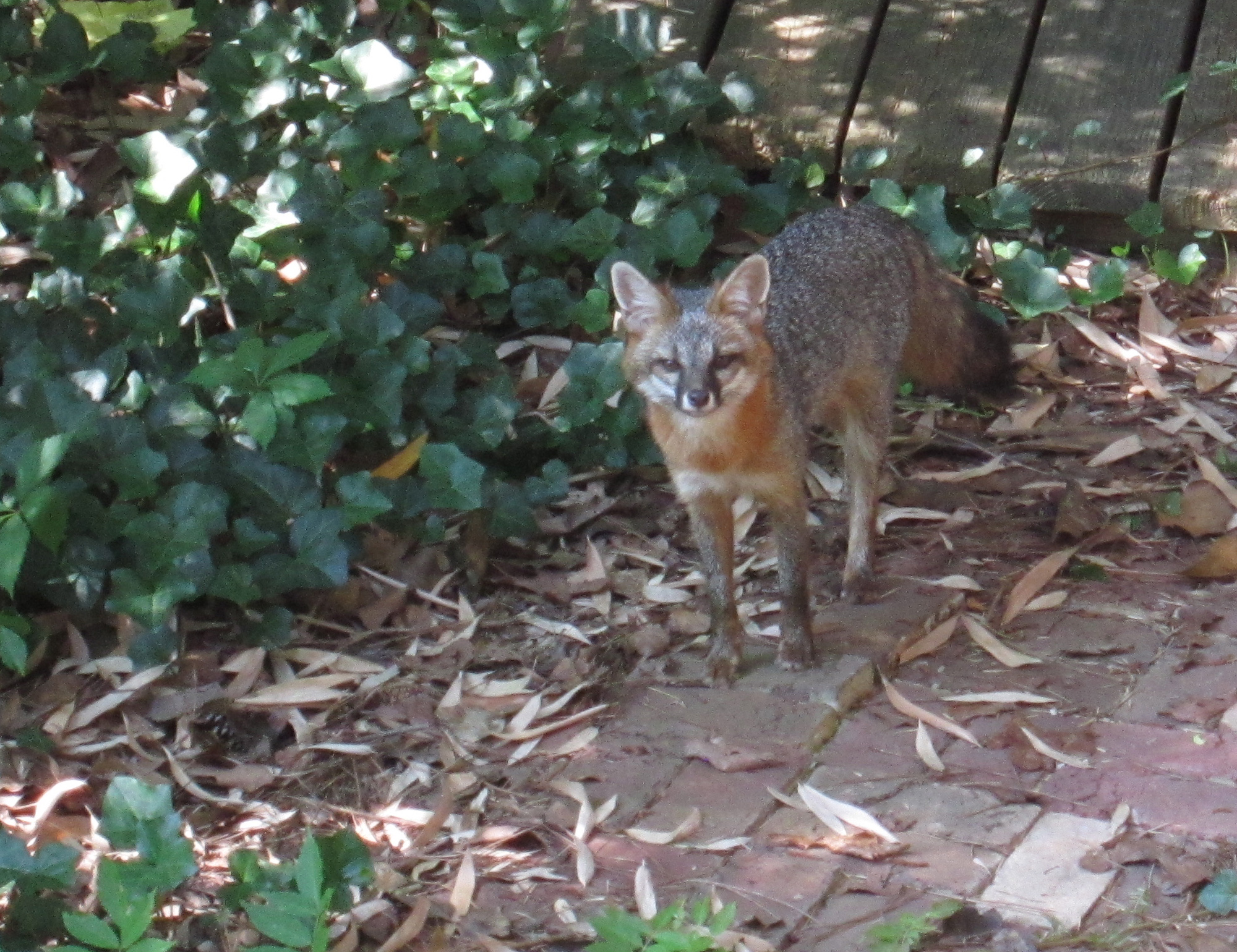 Gray fox mother (Urocyon cinereoargenteus) in our back yard, with 4 kits denned under the wood pallet behind her. Durham, North Carolina.